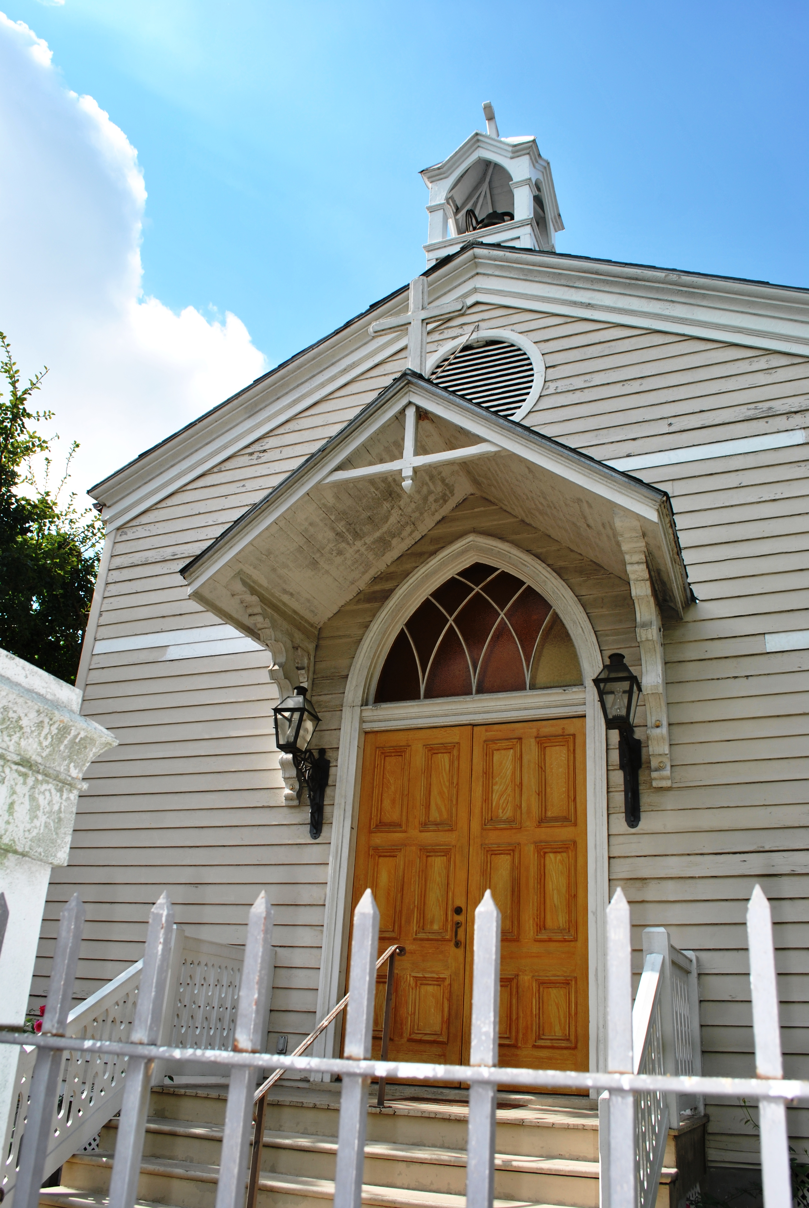 Garden District, New Orleans